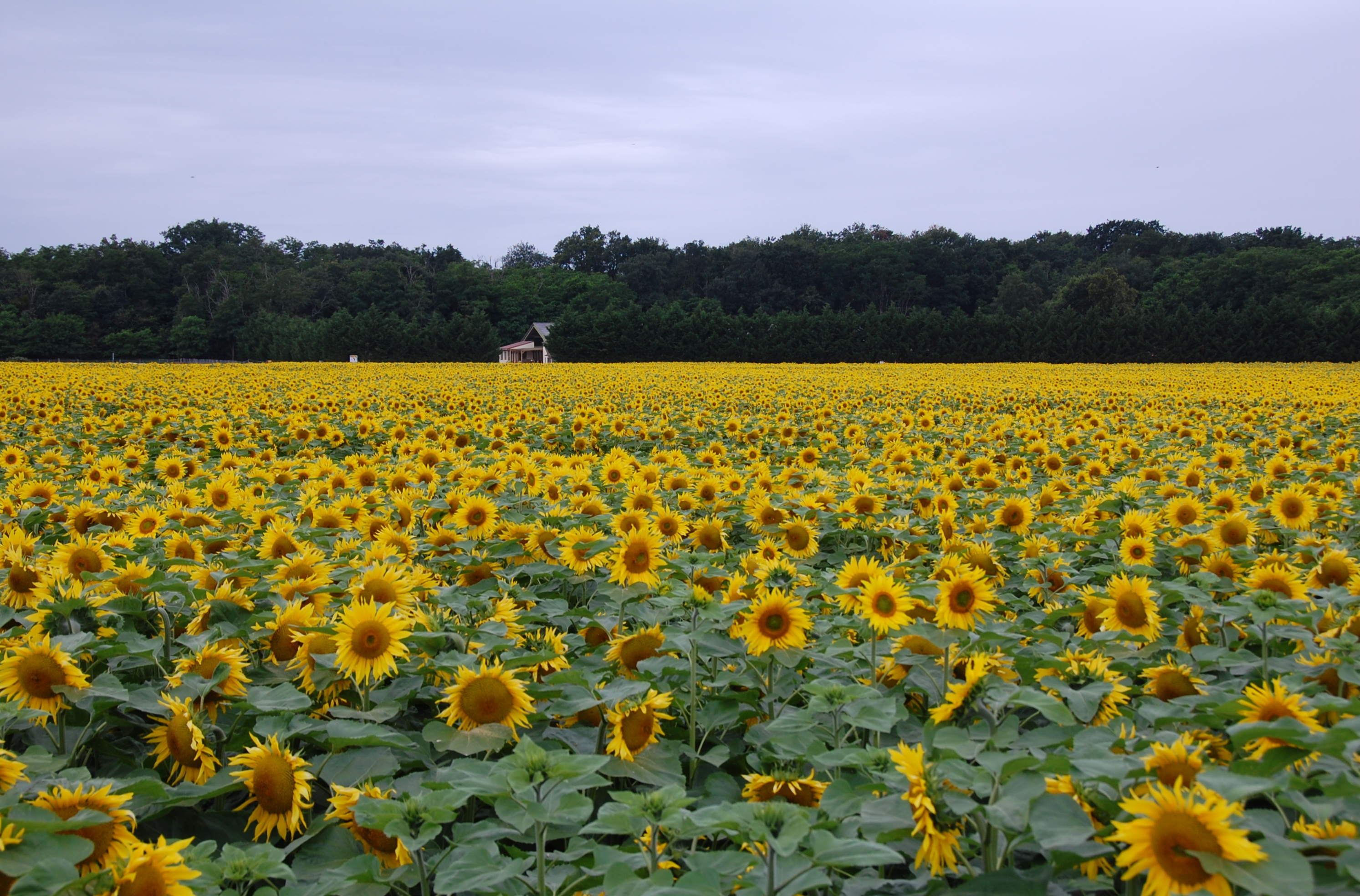 A field of sunflowers near Vineuil in the Loire Valley, France. Les Galvinettes is visible in the background.